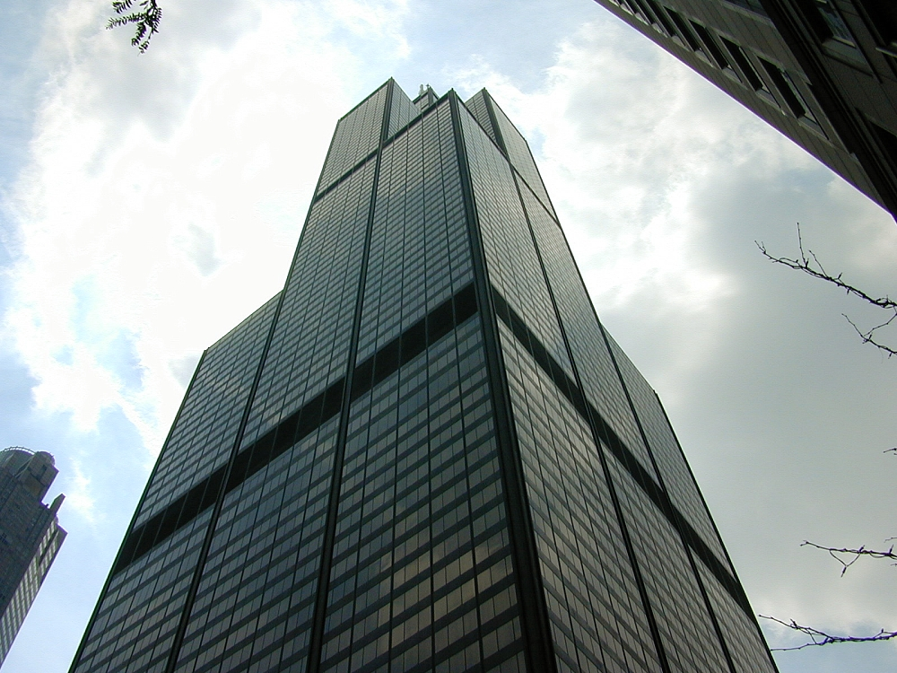 Sears Tower, Chicago, Illinois, USA